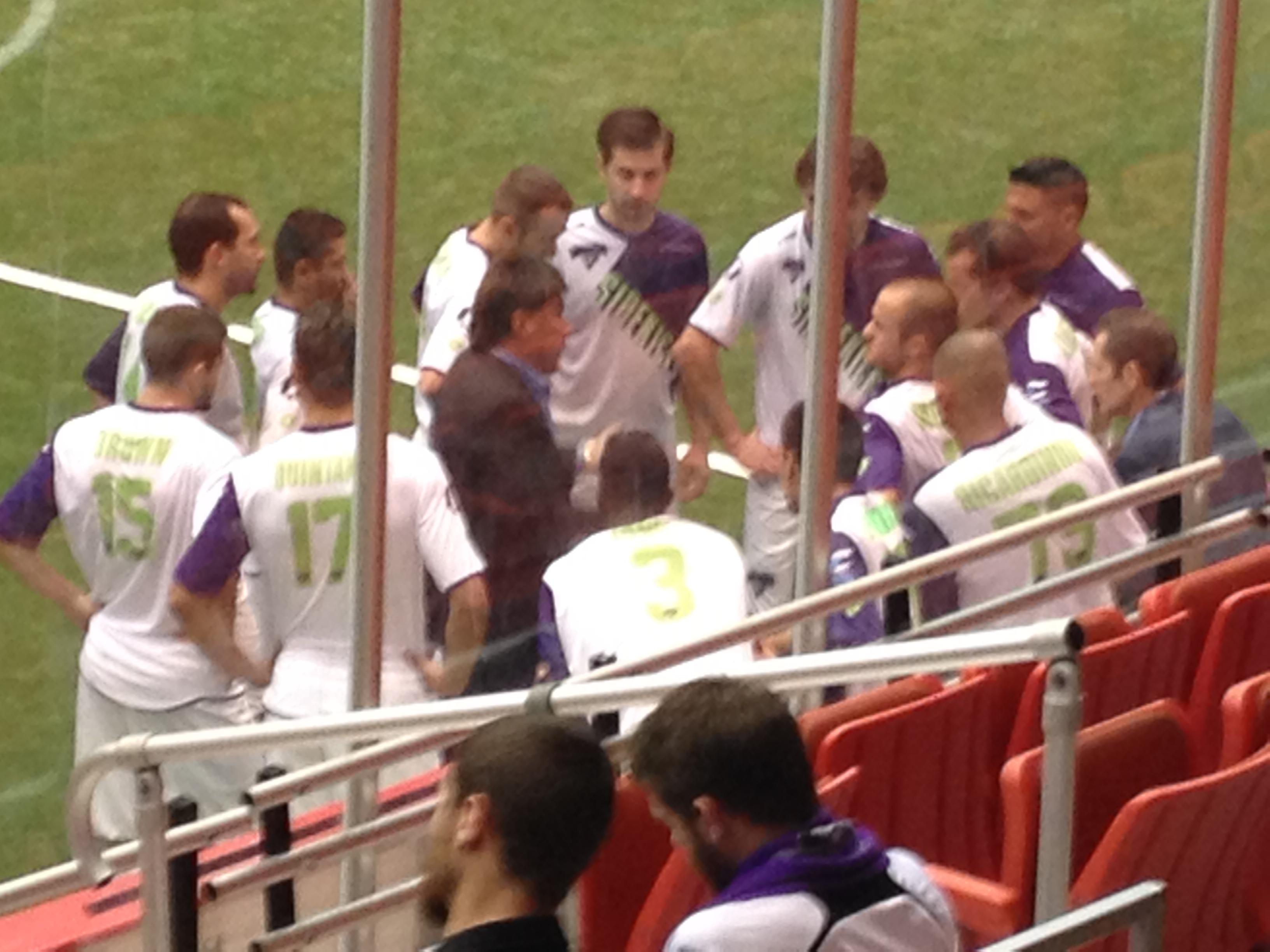 MASL Dallas Sidekicks head coach Tatu leading the team on the road against the Tulsa Revolution.